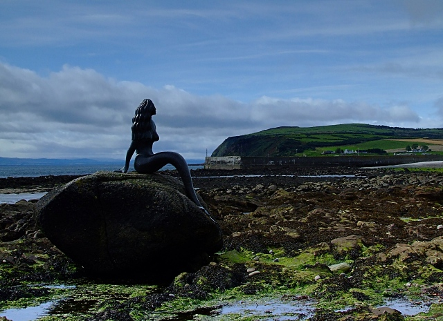 This Mermaid Sculpture sits on a rock in the Village of Balintore and is part of the Seaboard Sculpture Park opened in May this year